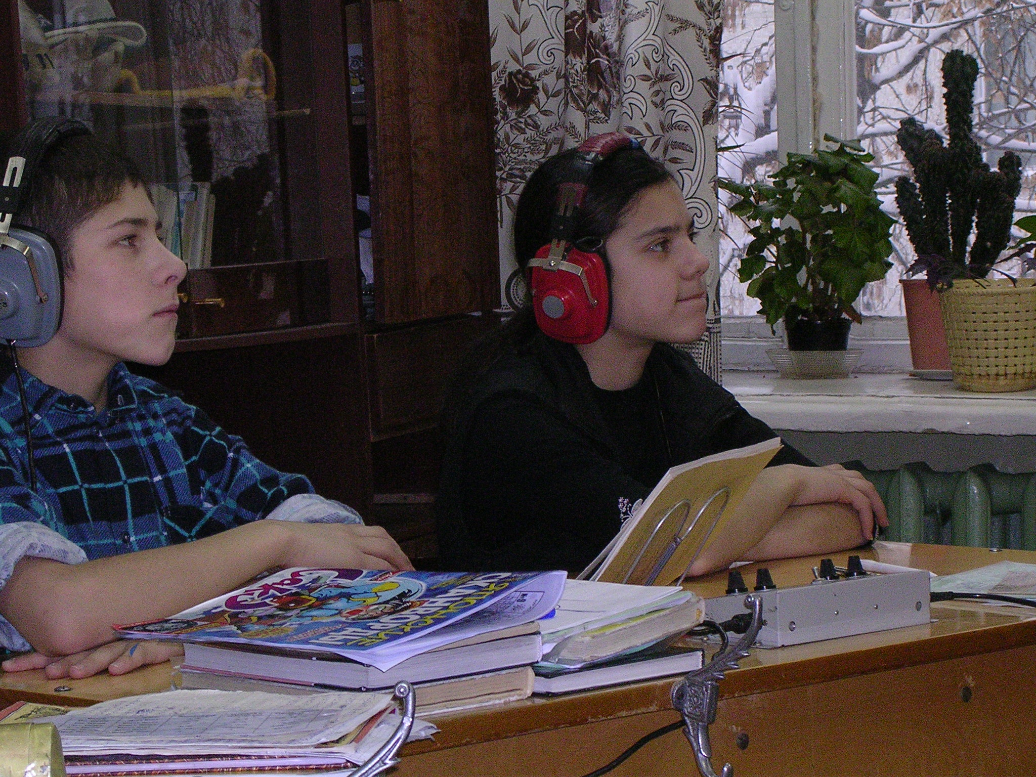 Pupils with hearing loss at the Ekaterinburg School for the Deaf